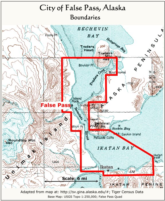 Boundaries of the City of False Pass, Alaska, USA. Boundaries encompass the abandoned villages of Morzhovoi and Ikatan.